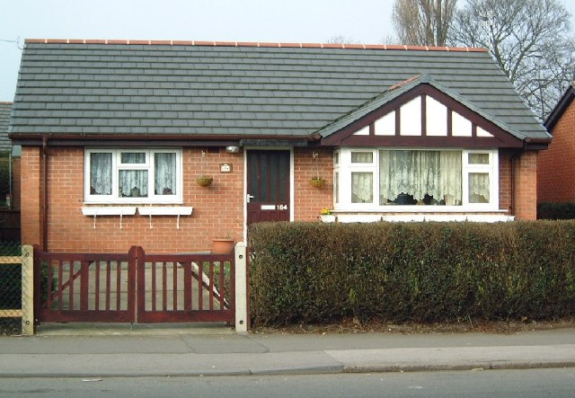 Modernised 'prefab' home, Bulwell. Prefab completely reworked with new walls, windows etc. Next door to a prefab preserved externally in its original form, also shown on this website